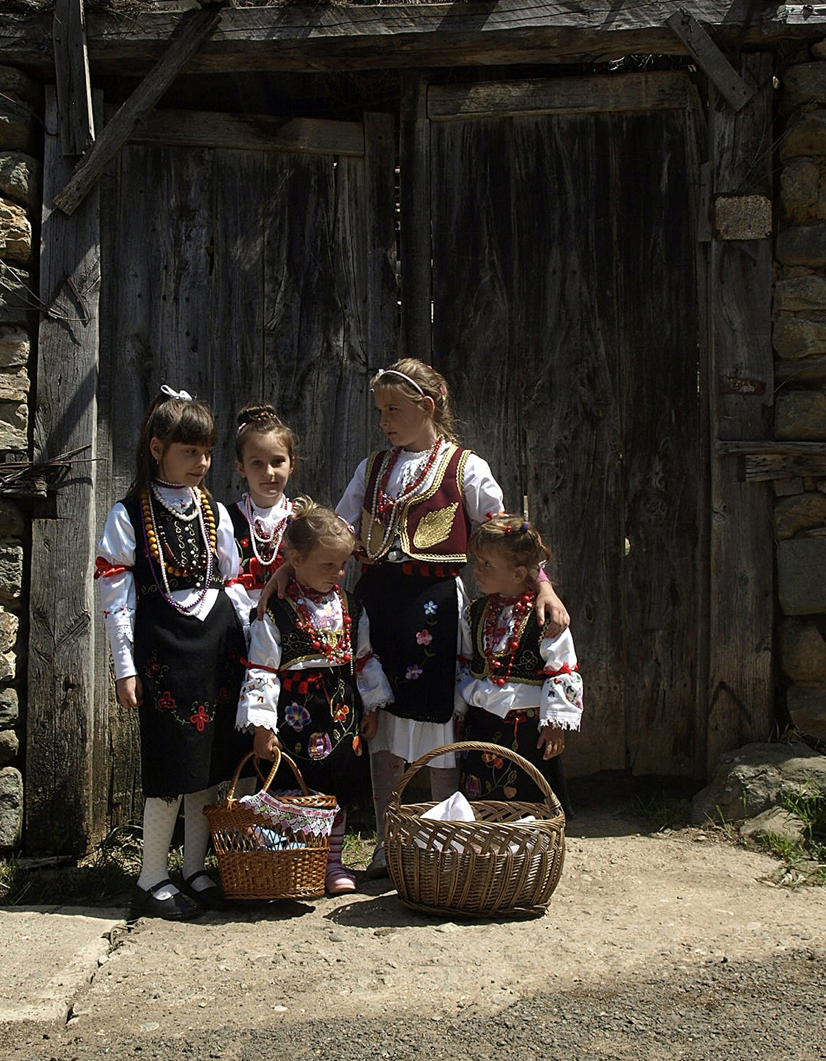 Tradicija sirinicke zupe 2013